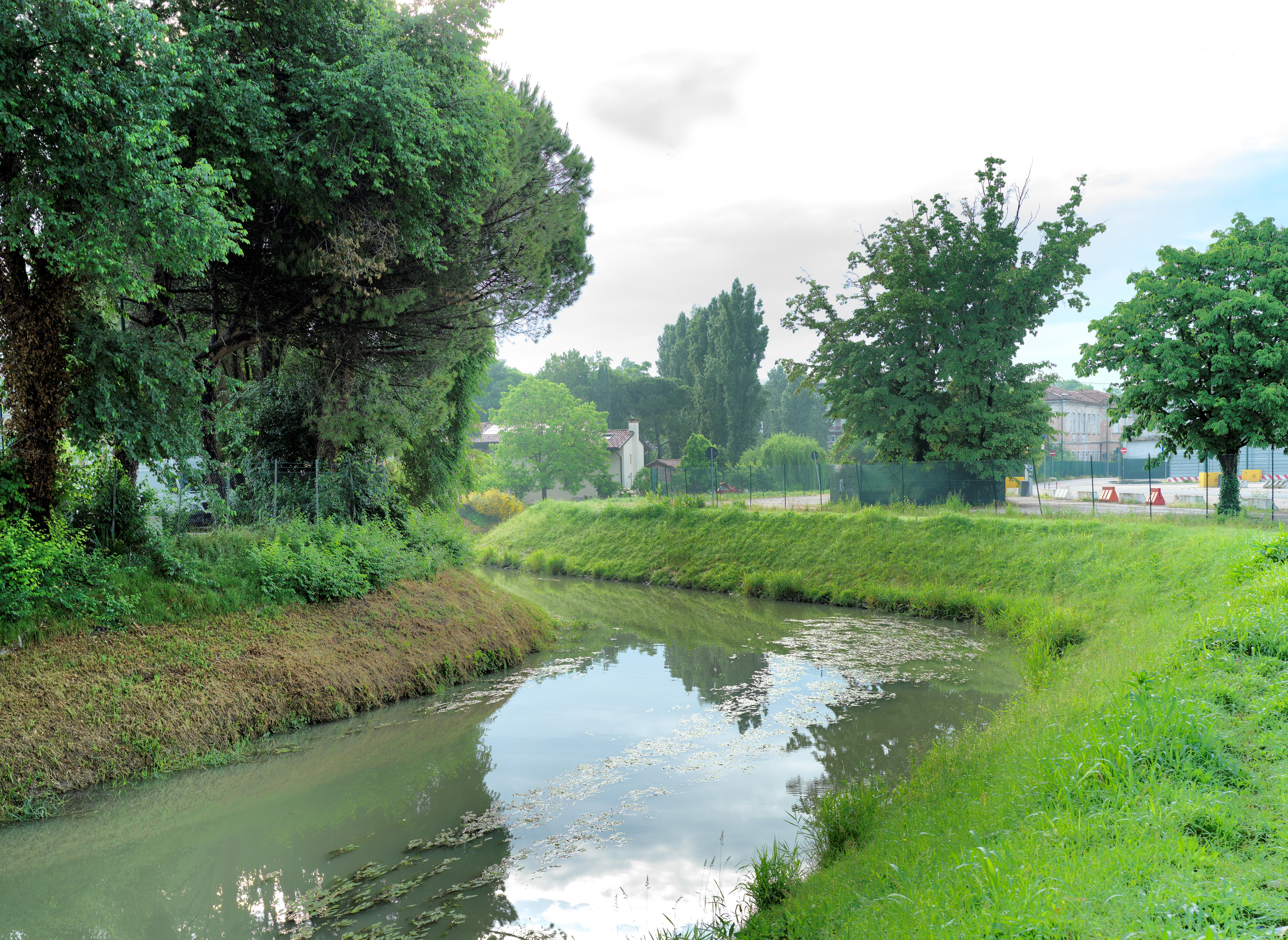 Fiume Marzenego canal in Mestre-Venice